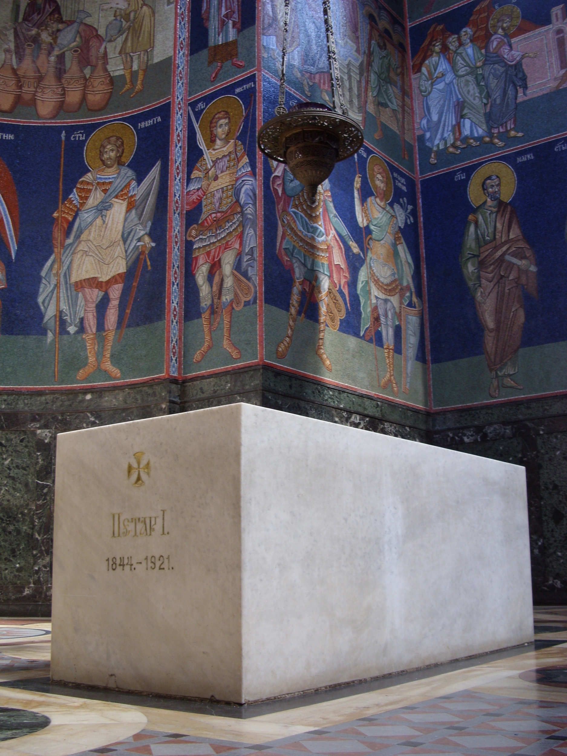 Grave of King Peter I. in St. Georges church in Oplenac (Topola, Serbia). Hornjoserbsce: Row krala Pětra I. w cyrkwje swj. Jurja w Oplenacu (Topola, Serbiska).